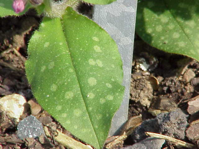 Species: Pulmonaria officinalis Family: Boraginaceae Image No. 1